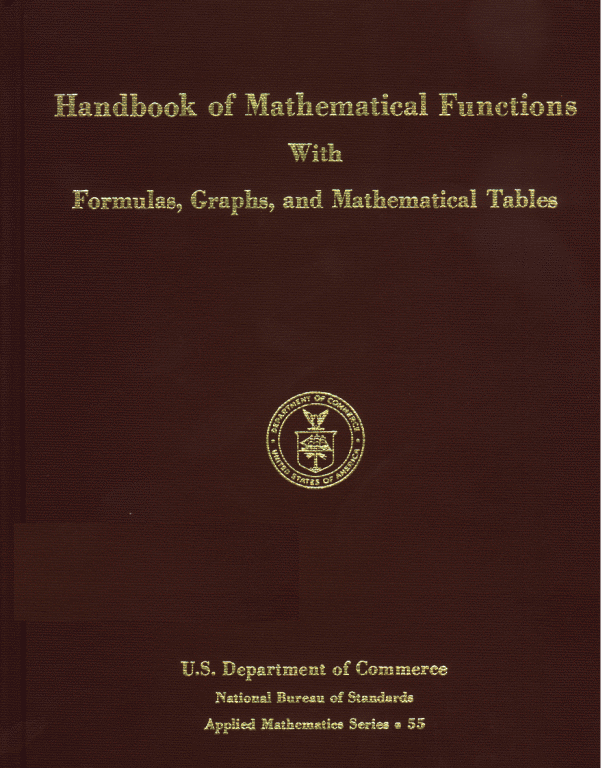 The Handbook is the product of US Government employees acting in official capacity, it is not protected by copyright.